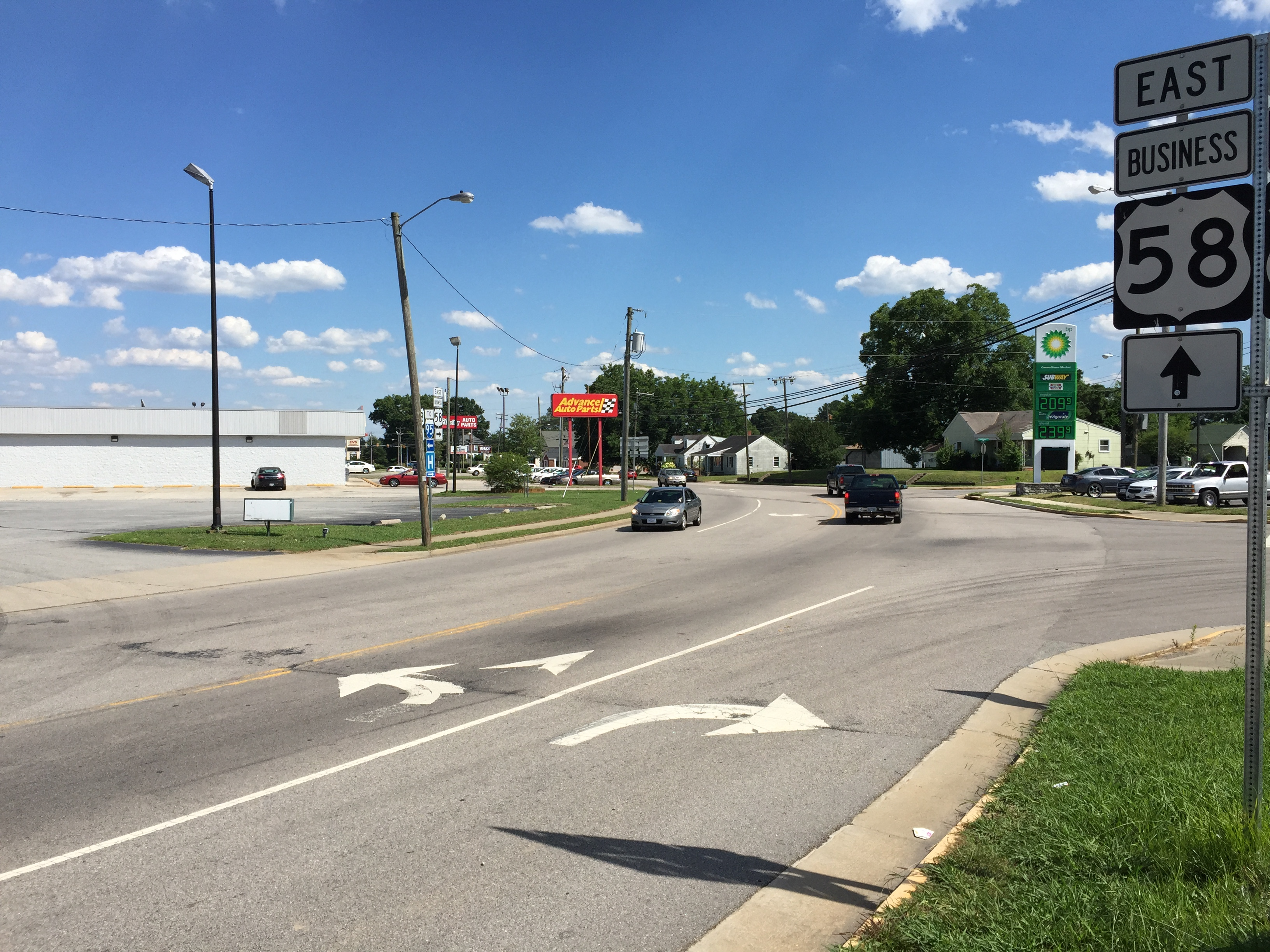 View east along U.S. Route 58 Business (Atlantic Street) at Market Drive in Emporia, Virginia